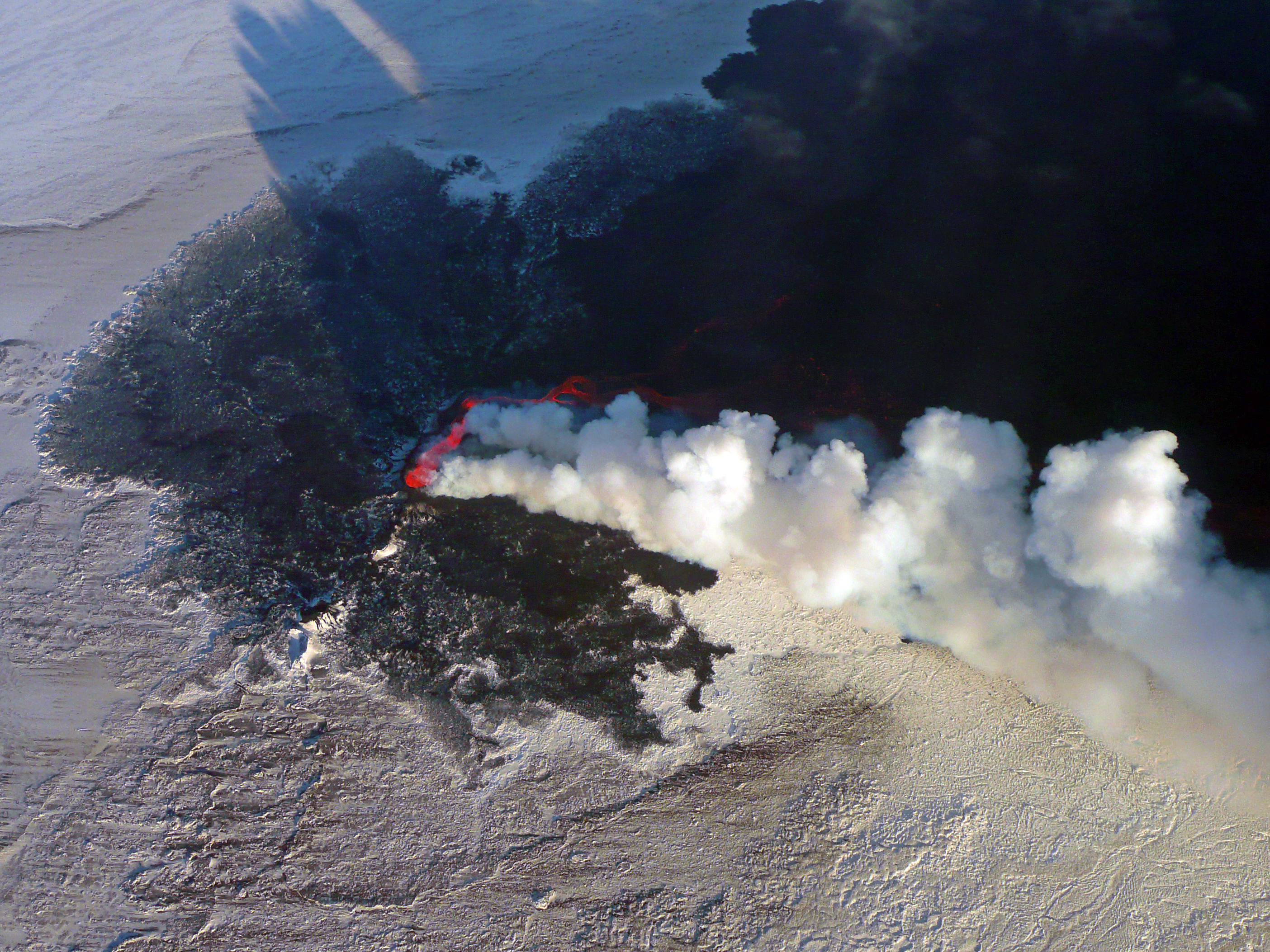 It was taken from FL180